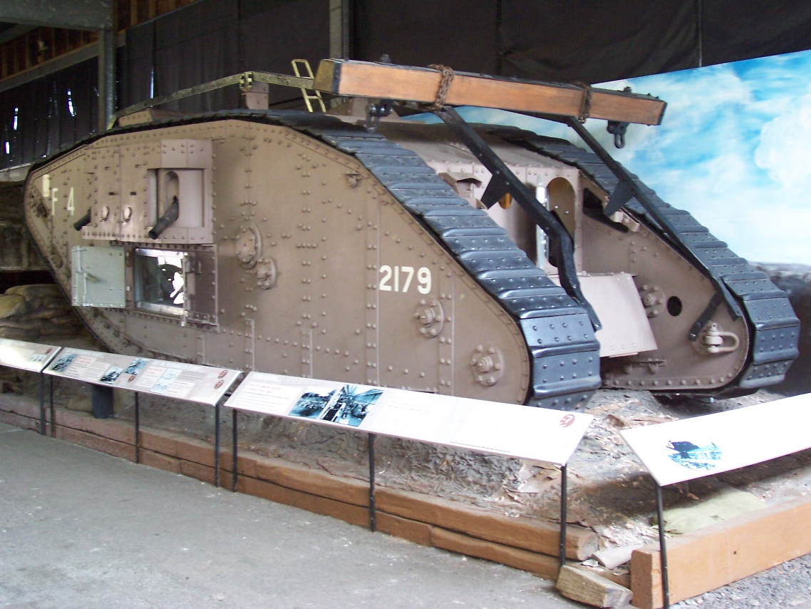 Water carrier for Mesopotamia. The first tank was built in Lincoln by William Foster & co. To keep it secret it was known during its development as 'Water Carrier for Mesopotamia'. This became shortened by the workforce to 'water tank' and eventually it was shortened again to 'tank' and the word entered the English language. This is one of the first designs which went into production and was in active service on the battlefields of France. The photo was taken at the Museum of Lincolnshire Life, Lincoln on the weekend of the 90th anniversary of the Battle of the Somme. This example is a Mk IV Female tank Flirt II and is known to have fought at the Battle of Cambrai in 1917.